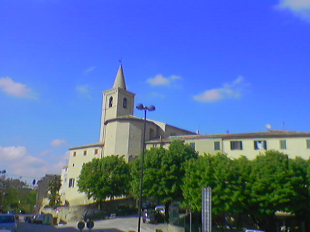 Appignano